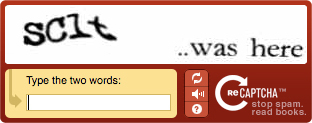 A CAPTCHA will have a text box down the bottom, where you are required to writle the words down. For example, here, one would write 'sclt ..was here'